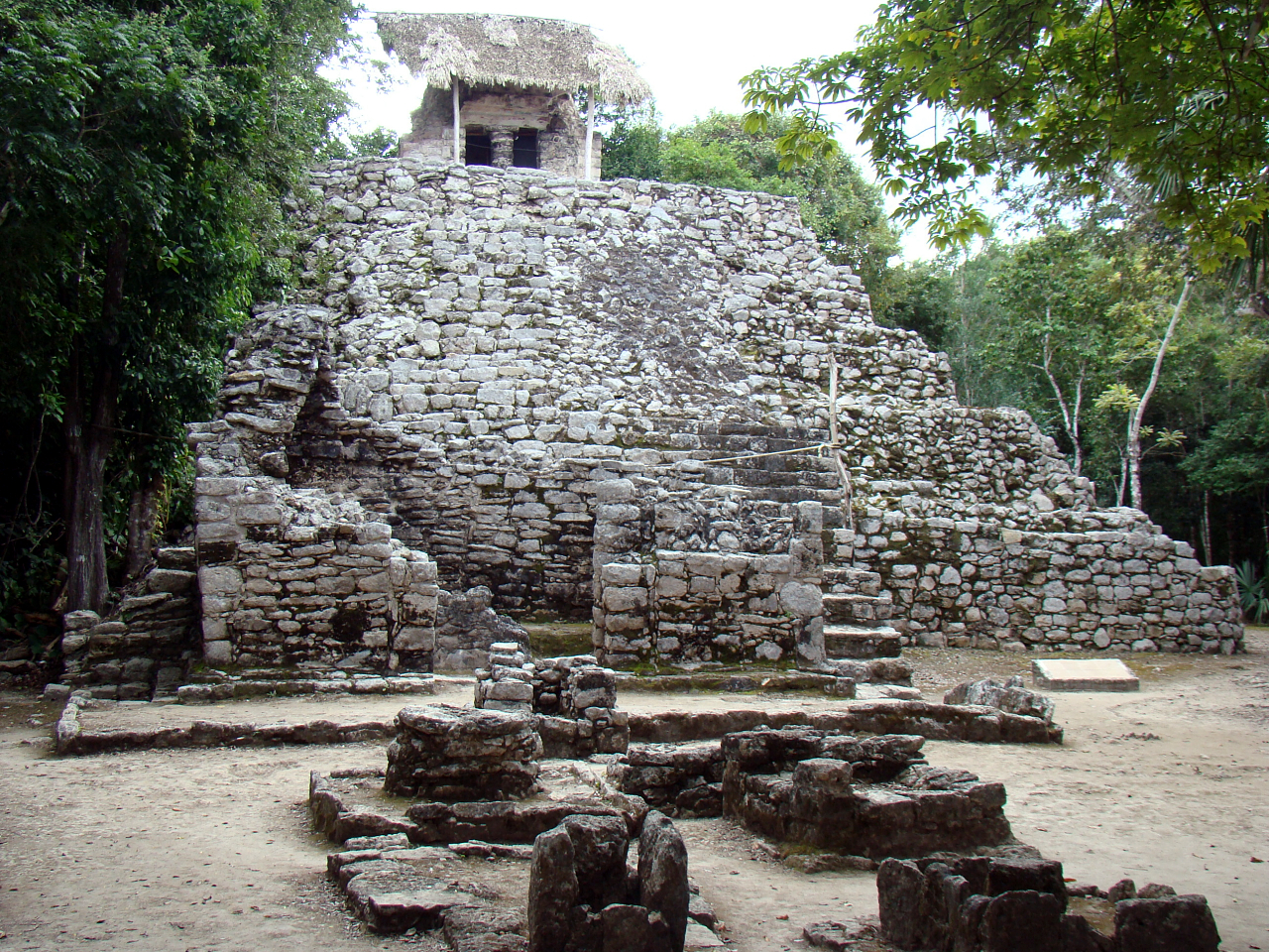 Muuch'il Boonilo ob (Painting Complex) in Coba. Temple